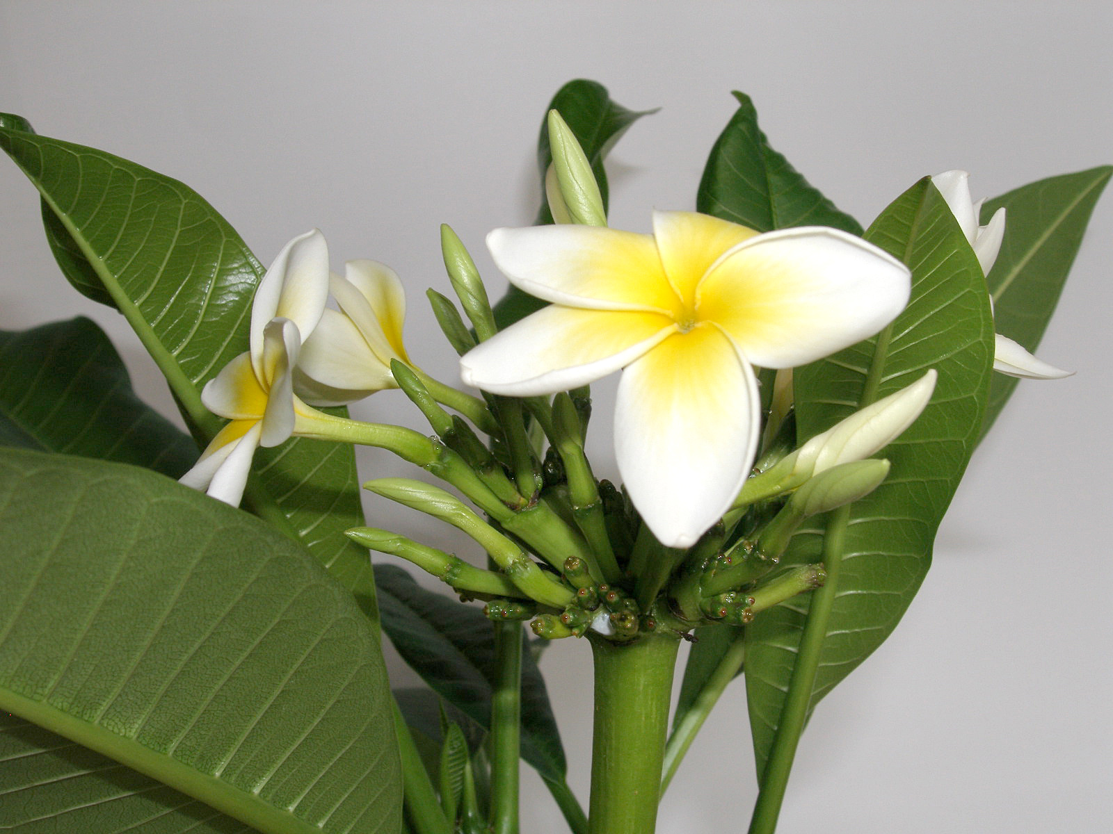 Frangipani (Plumeria rubra) Blossom from a park on Gomera Island, height 140 cm